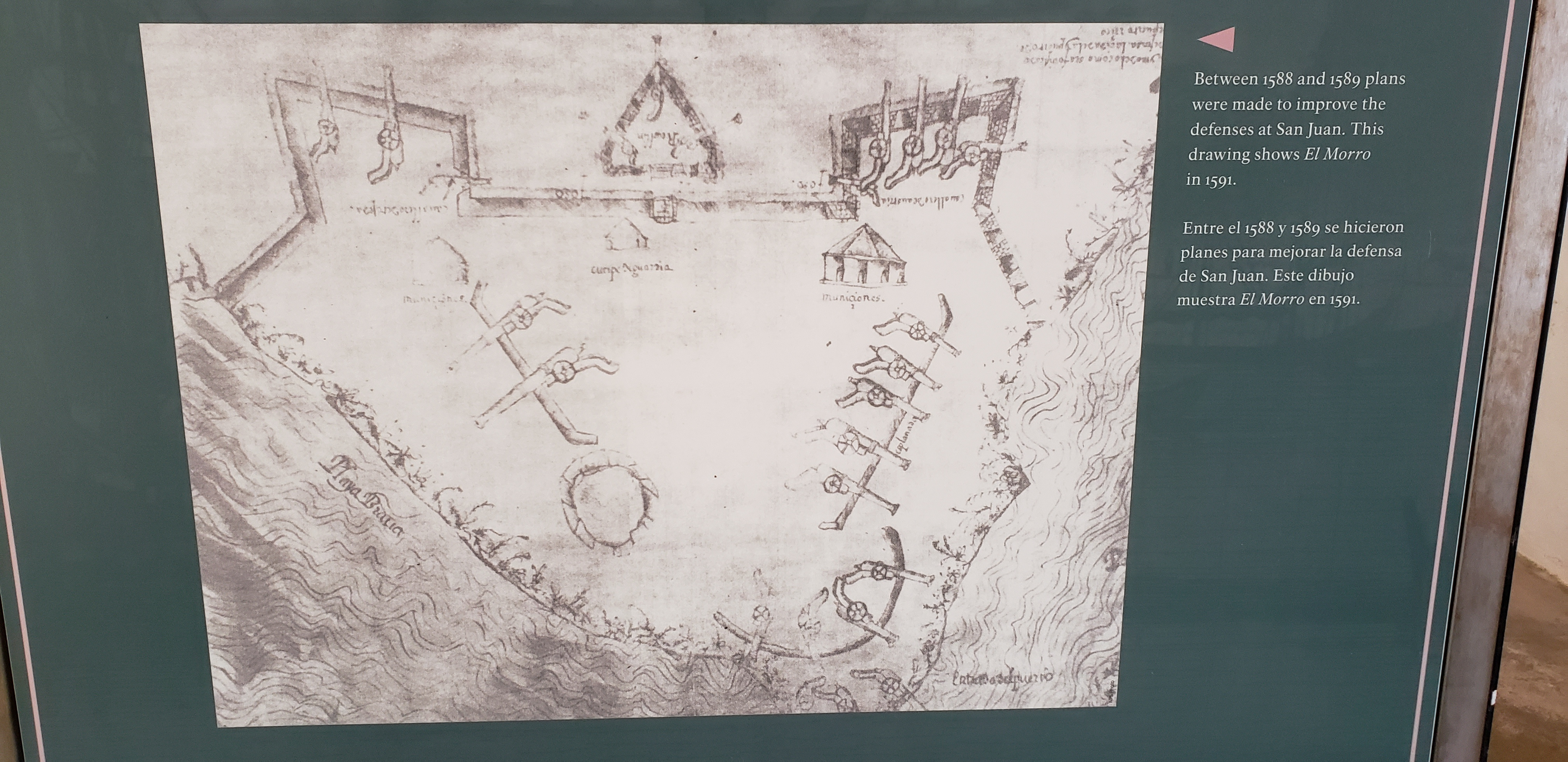 National park marker for del Morro, 1591, Viejo San Juan